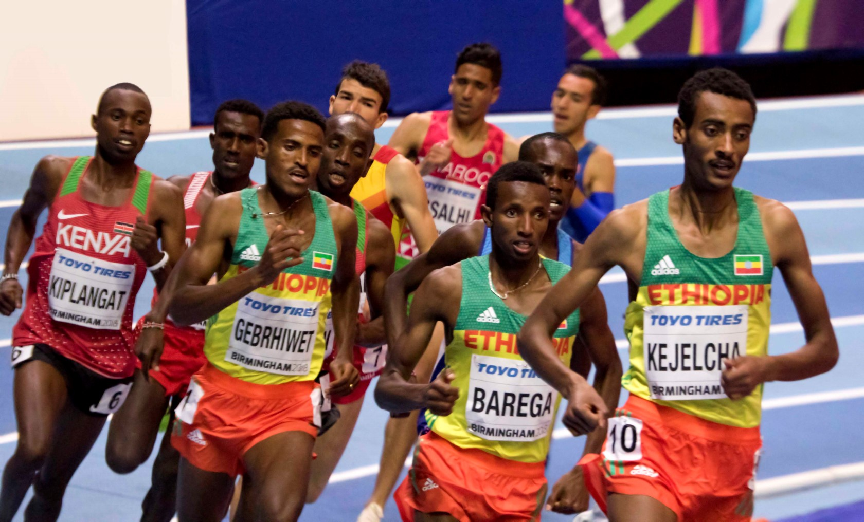 WK040057 finale 3000m heren